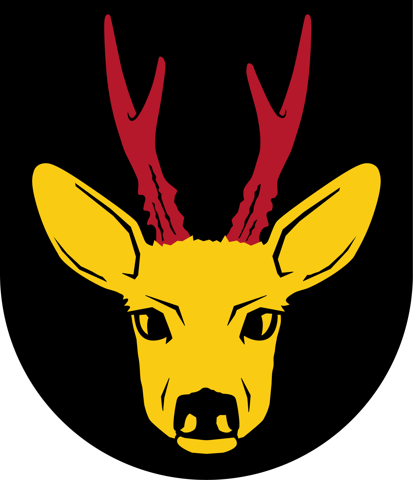 Coat of arms of the municipality of Lekeberg, Sweden. Painted by Vladimir A. Sagerlund when he was the heraldic artist at the National Archives of Sweden (Riksarkivet). This representation of a coat of arms is potentially different from the one used by the armiger (municipality or organisation) in question. = ⇑“Sable, a lionrampant or” This coat of arms was drawn based on its blazon which – being a written description – is free from copyright. Any illustration conforming with the blazon of the arms is considered to be heraldically correct. Thus several different artistic interpretations of the same coat of arms can exist. The design officially used by the armiger is likely protected by copyright, in which case it cannot be used here.Individual representations of a coat of arms, drawn from a blazon, may have a copyright belonging to the artist, but are not necessarily derivative works. Further information: Commons:Coats of arms and Template:Coa blazon